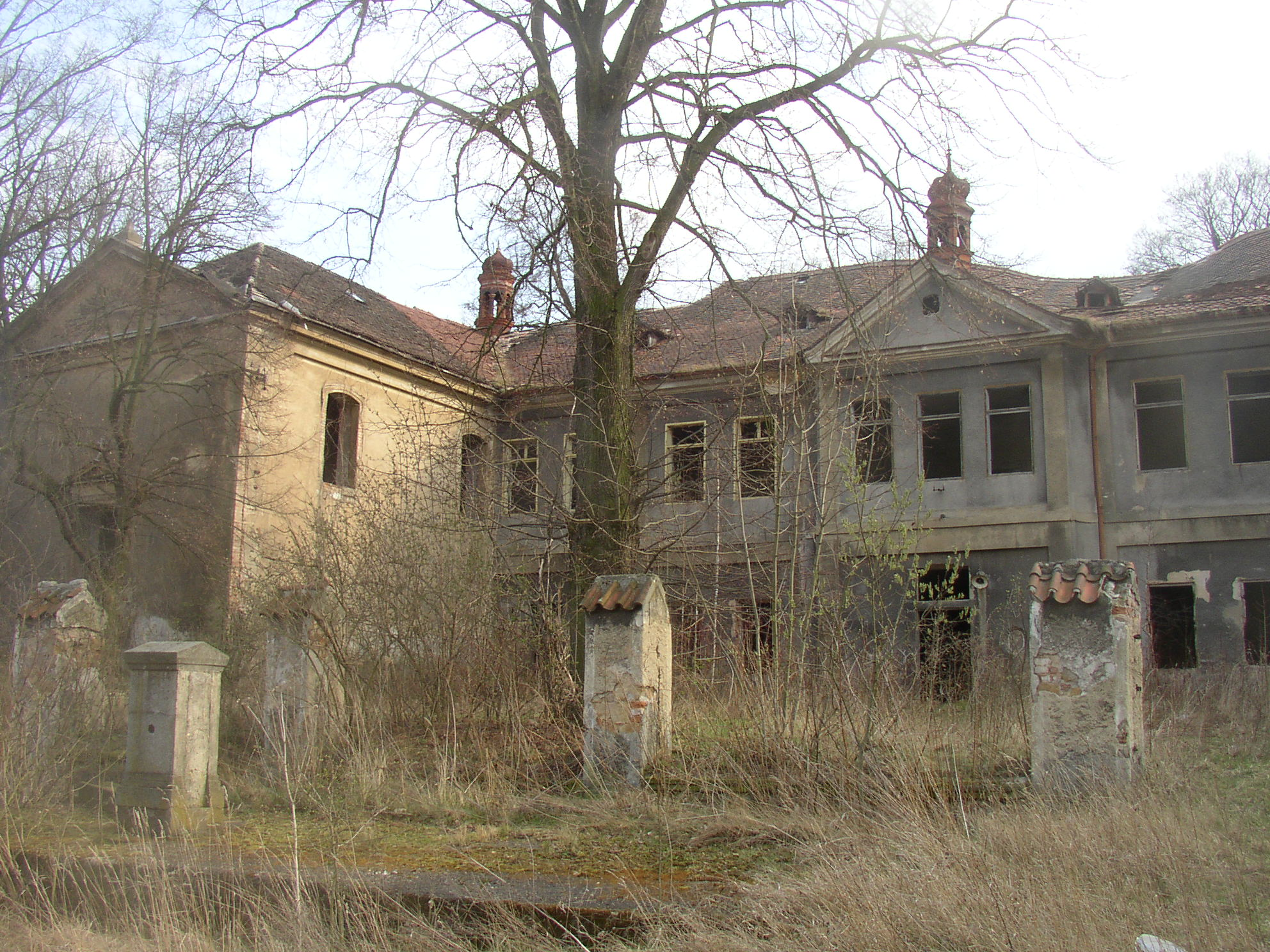 Koleč Chateau, Kladno District, Czech Republic. Front of the chateau and Holy Trinity Chapel (left) as seen from NNW.